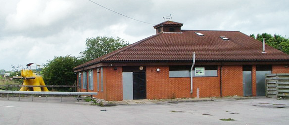 Closed-down shell of a former "Happy Eater" restaurant circa mid-2007, just upside Upton Lovell, near Warminster, Wiltshire, England. Note the still-intact plastic elephant. (As of mid-2013, this restaurant had since been refurbished and was operating as an Indian restaurant called "Toran").